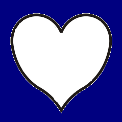 Corps badge for 2nd division, XXIV corps Union Army (American Civil War)